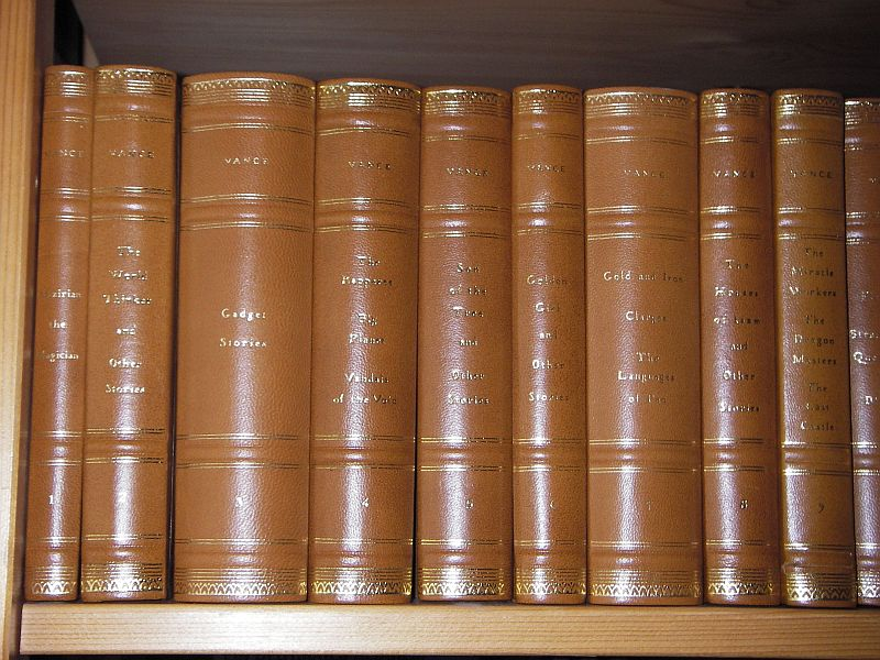 bookshelf with first nine volumes of the Vance Integral Edition (Readers edition)